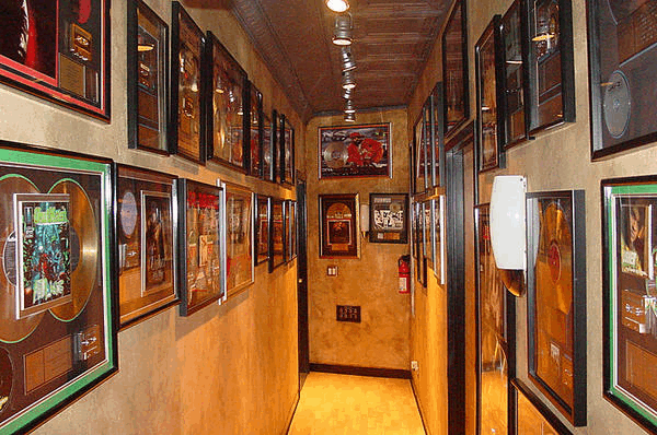 A picture of various awards and plaques hanging on the walls of the hallway at PatchWerk Recording Studios.